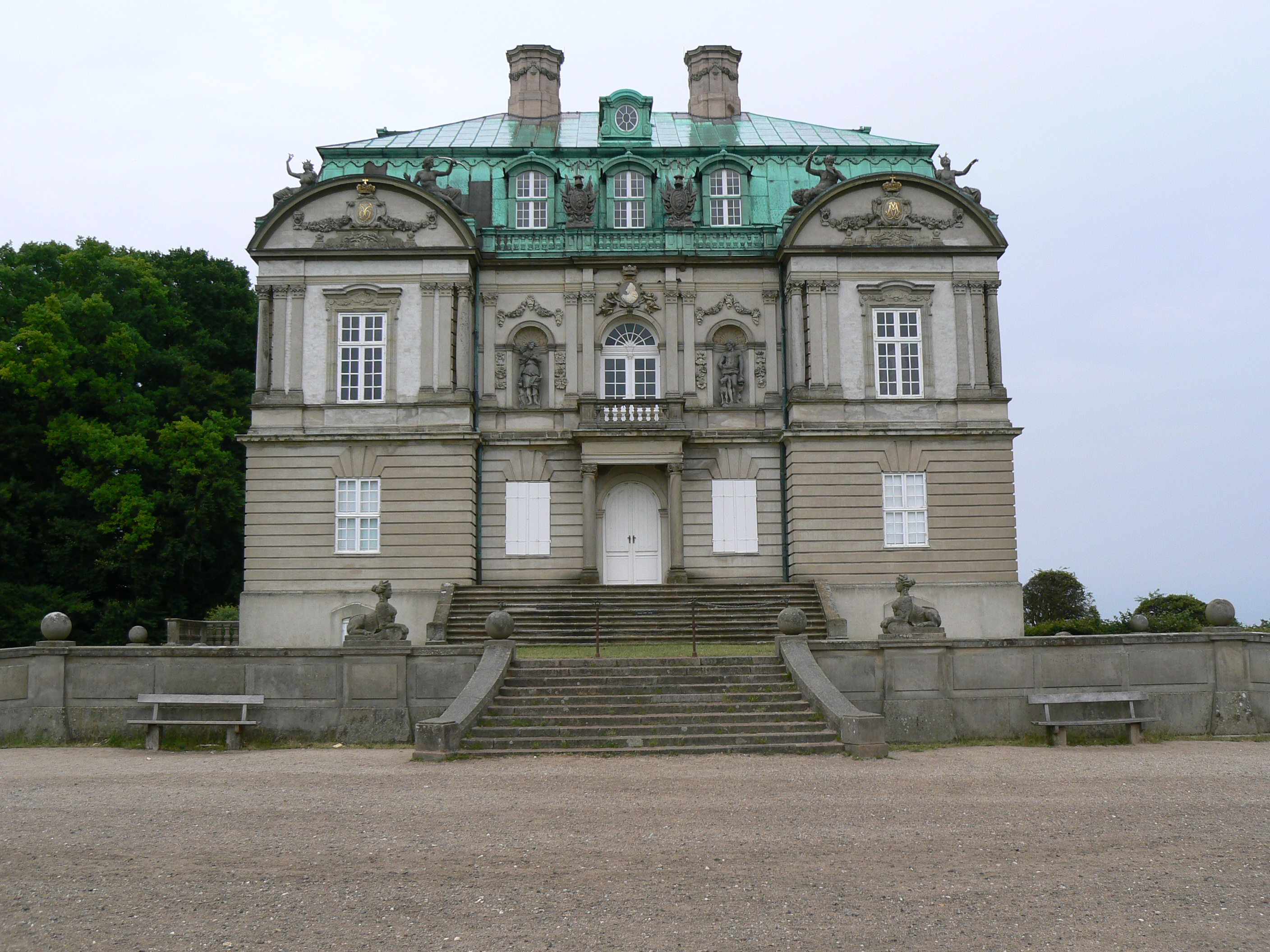 Front view of 'Eremitageslottet', the "Hermitage Palace", an official residence of the Danish monarch.